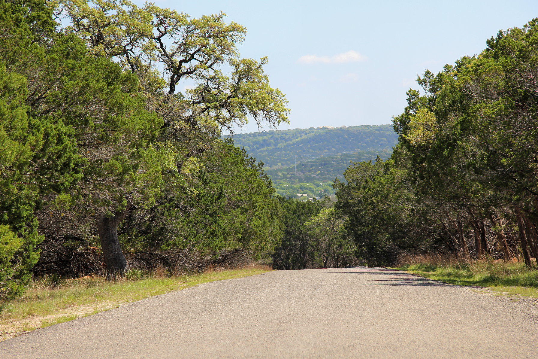 A road with a view in Kerrville-Schreiner Park, Kerrville, Texas, United States.